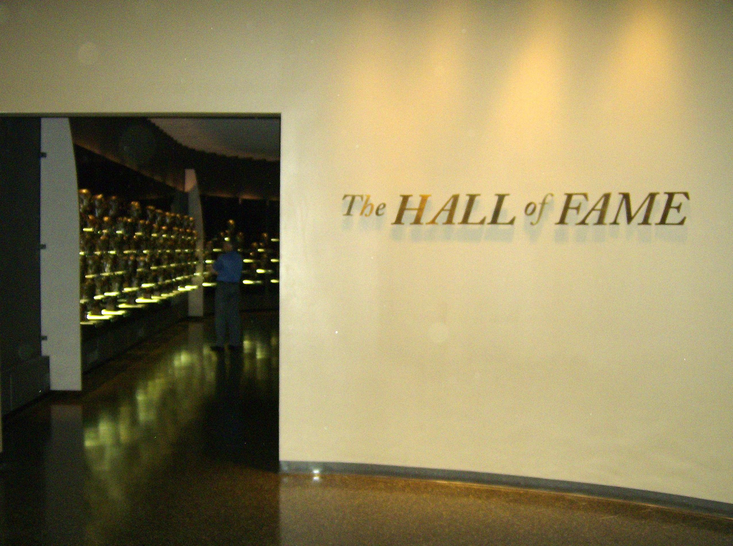 Entrance to display of inductee busts in the Pro Football Hall of Fame, Canton, Ohio.